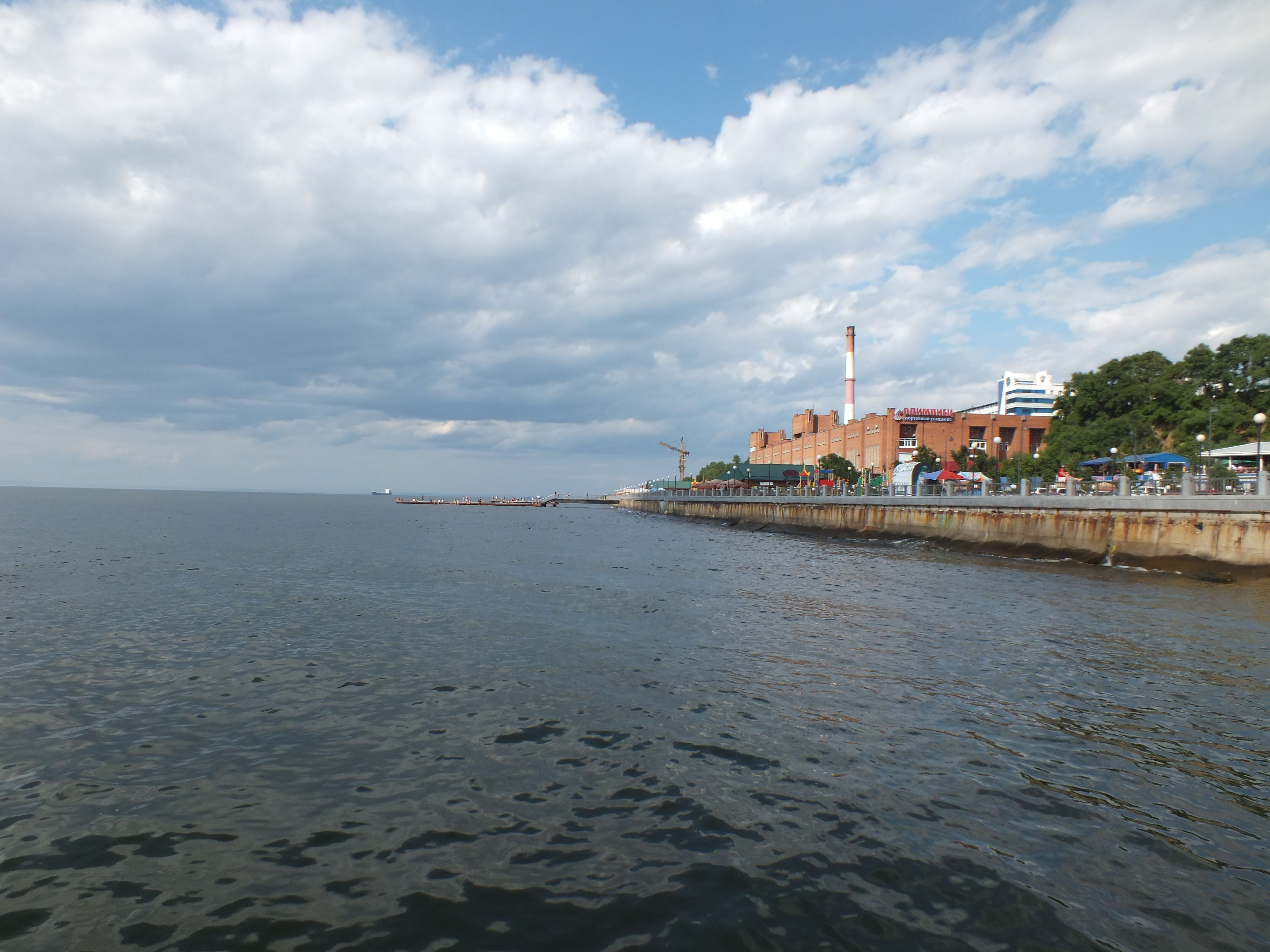 Vladivostok